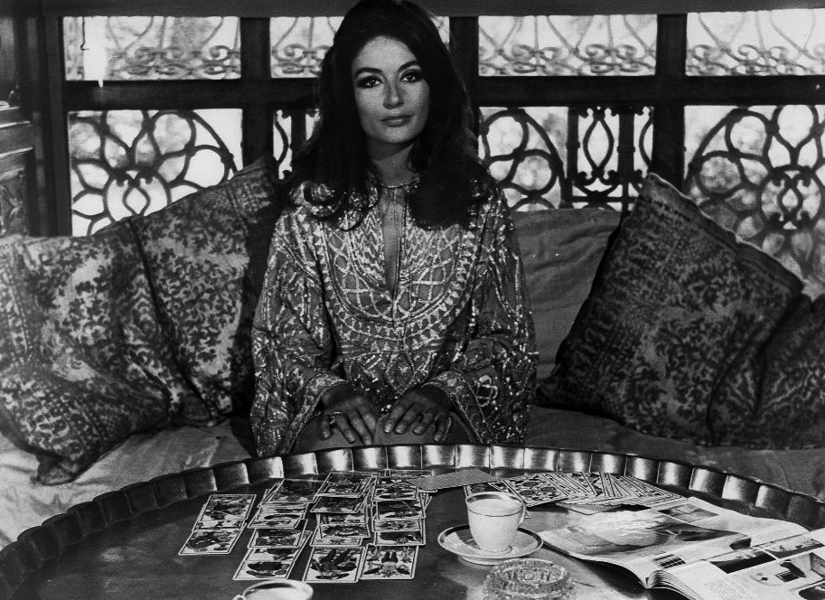 Photo of Anouk Aimee from the film Justine.